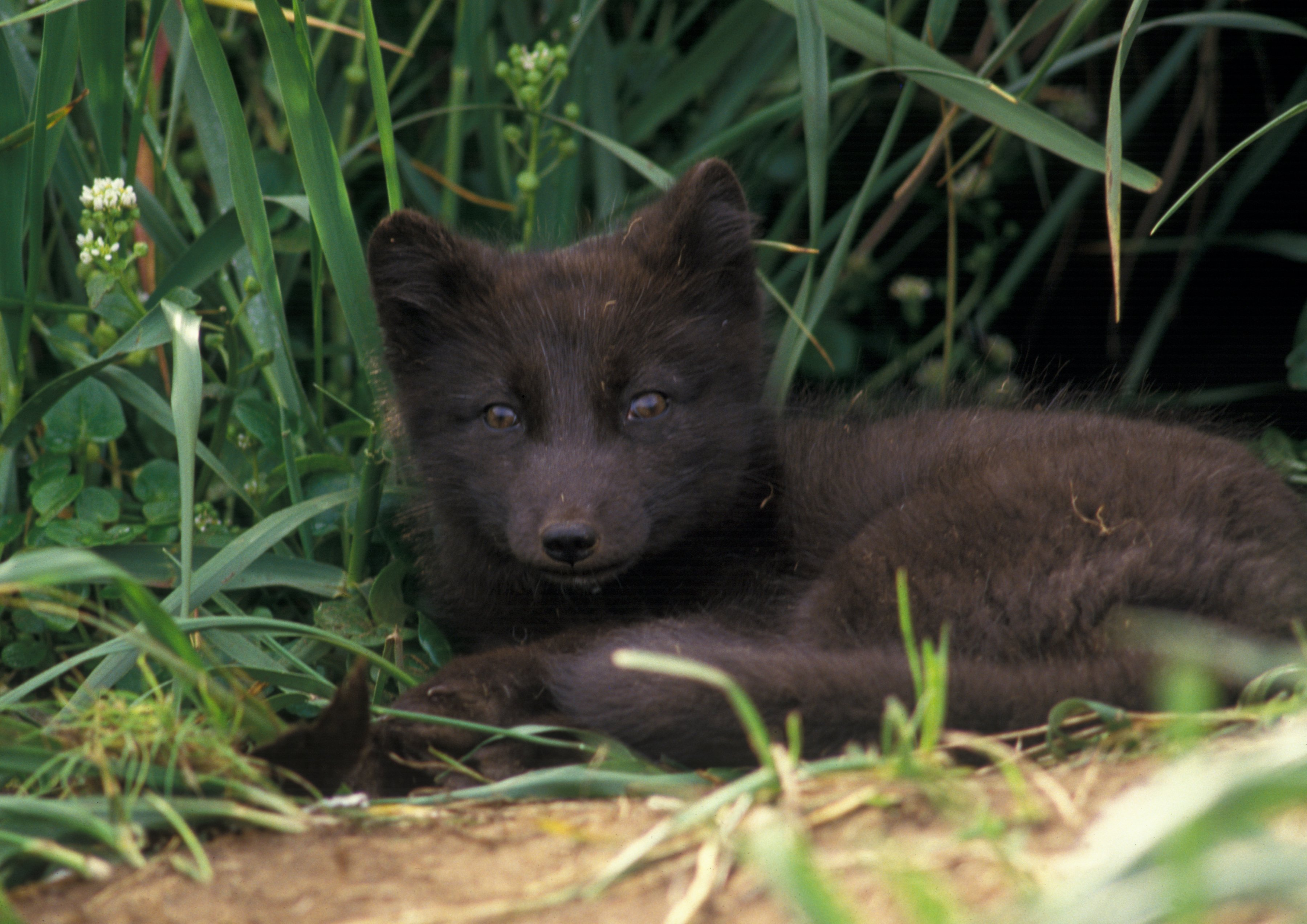 An arctic fox (Alopex lagopus). Alaska, St. Paul Island.